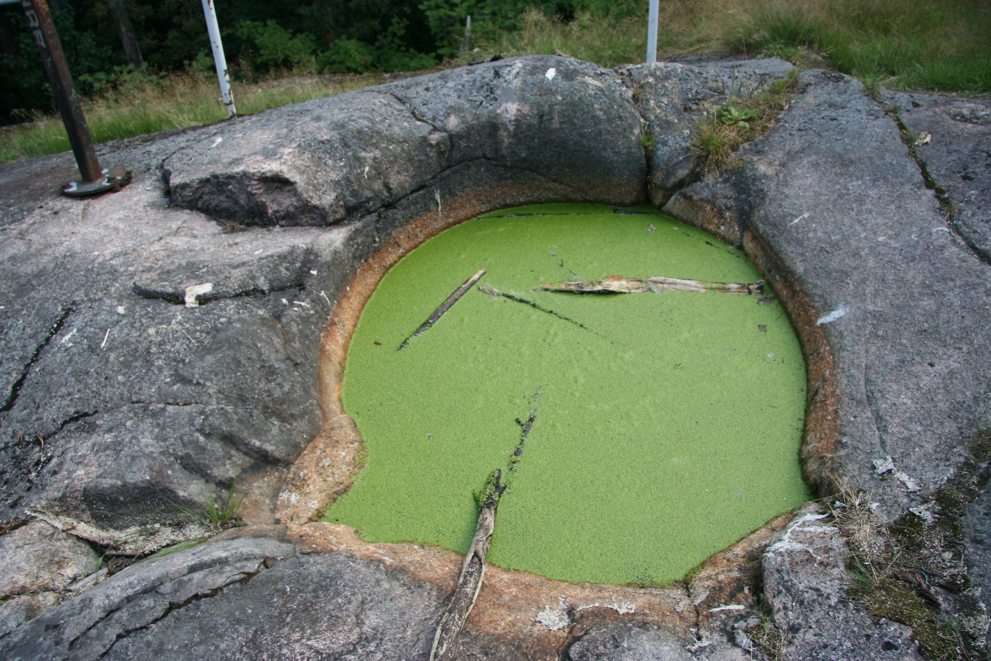 Giant's Kettle in Käpylä, Helsinki